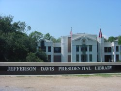 Beauvoir Library, Biloxi, Mississippi - Jefferson Davis Presidential Library, located on the grounds of Beauvoir (Biloxi, Mississippi). This building was heavily damaged during Hurricane Katrina in 2005. The building was subsequently demolished for construction of a new library that opened in 2013.